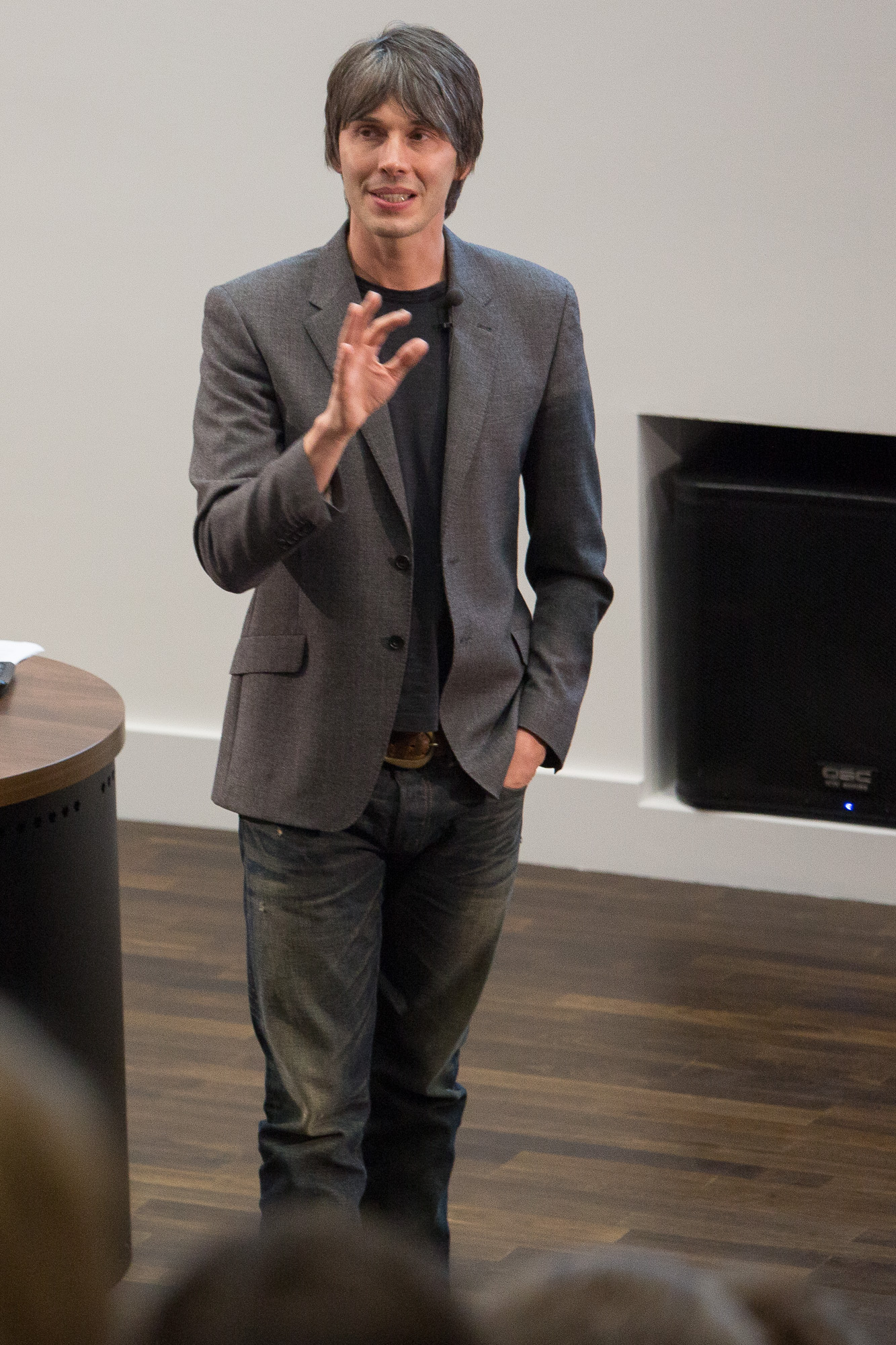 Professor Brian Cox delivers the inaugural lecture at The Forum Southend-on-Sea